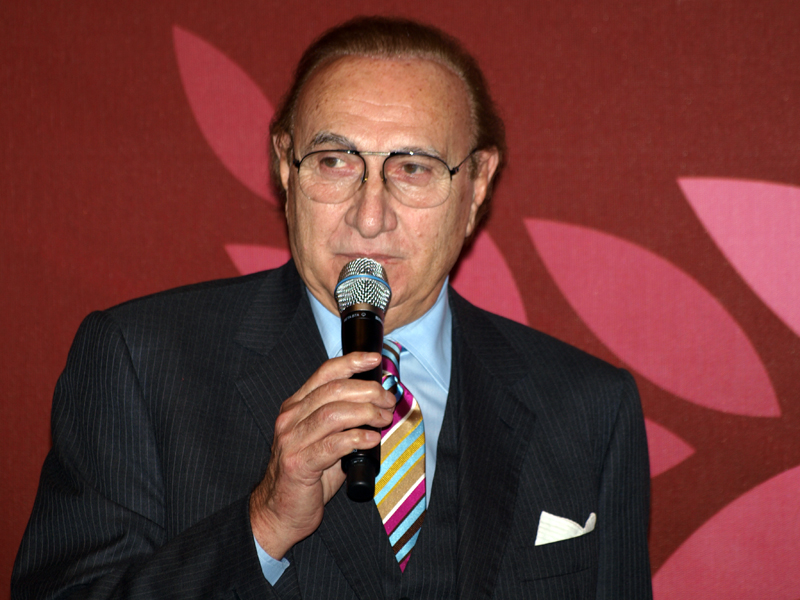 Italian presenter Pippo Baudo in 2011